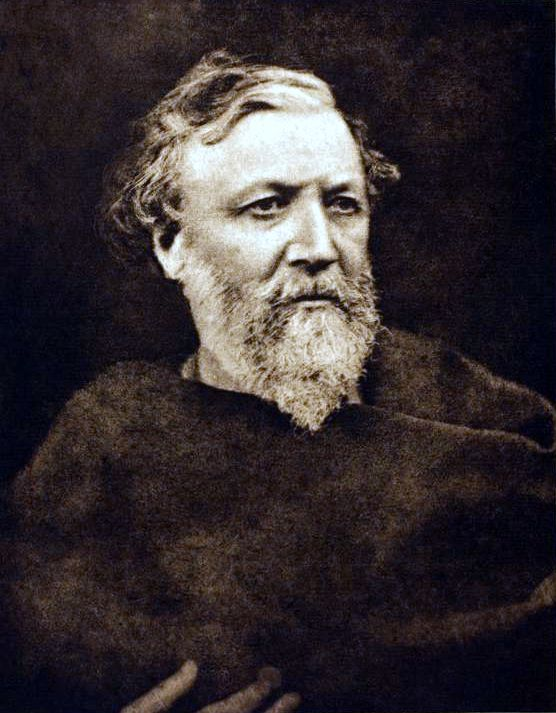 Photogravure of Robert Browning, 1865, printed c. 1893